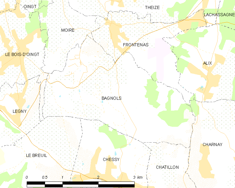 Map of French municipality